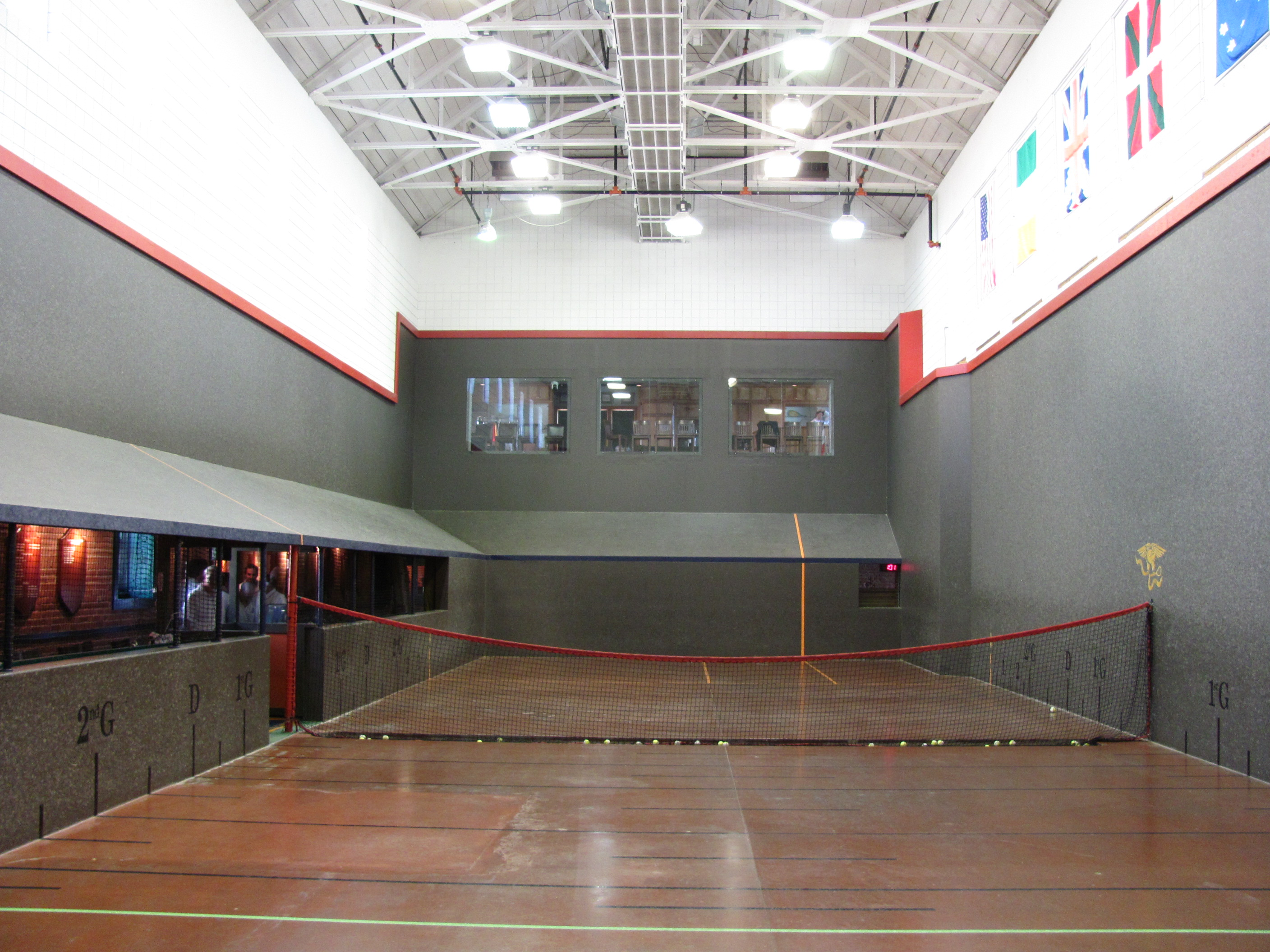 National Tennis Court, Newport Rhode Island